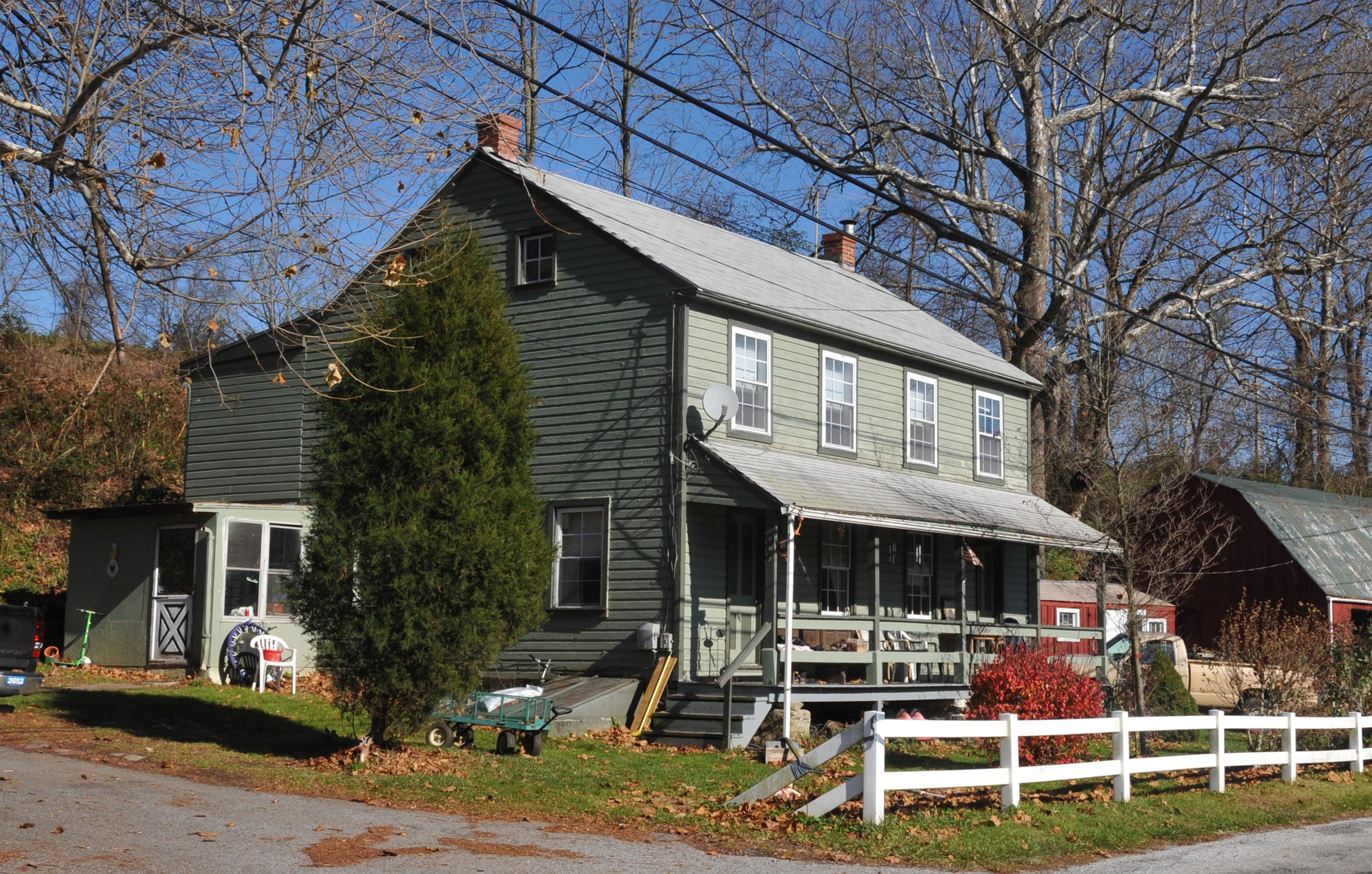 THE OWNER OF THIS HOUSE HAS LIVED HERE FOR 80 YEARS AND TOLD ME THAT THIS IS THE ONLY HOUSE STILL REMAINING OF THE WORKERS AT THE IRON WORKS.; CIRCA 1870